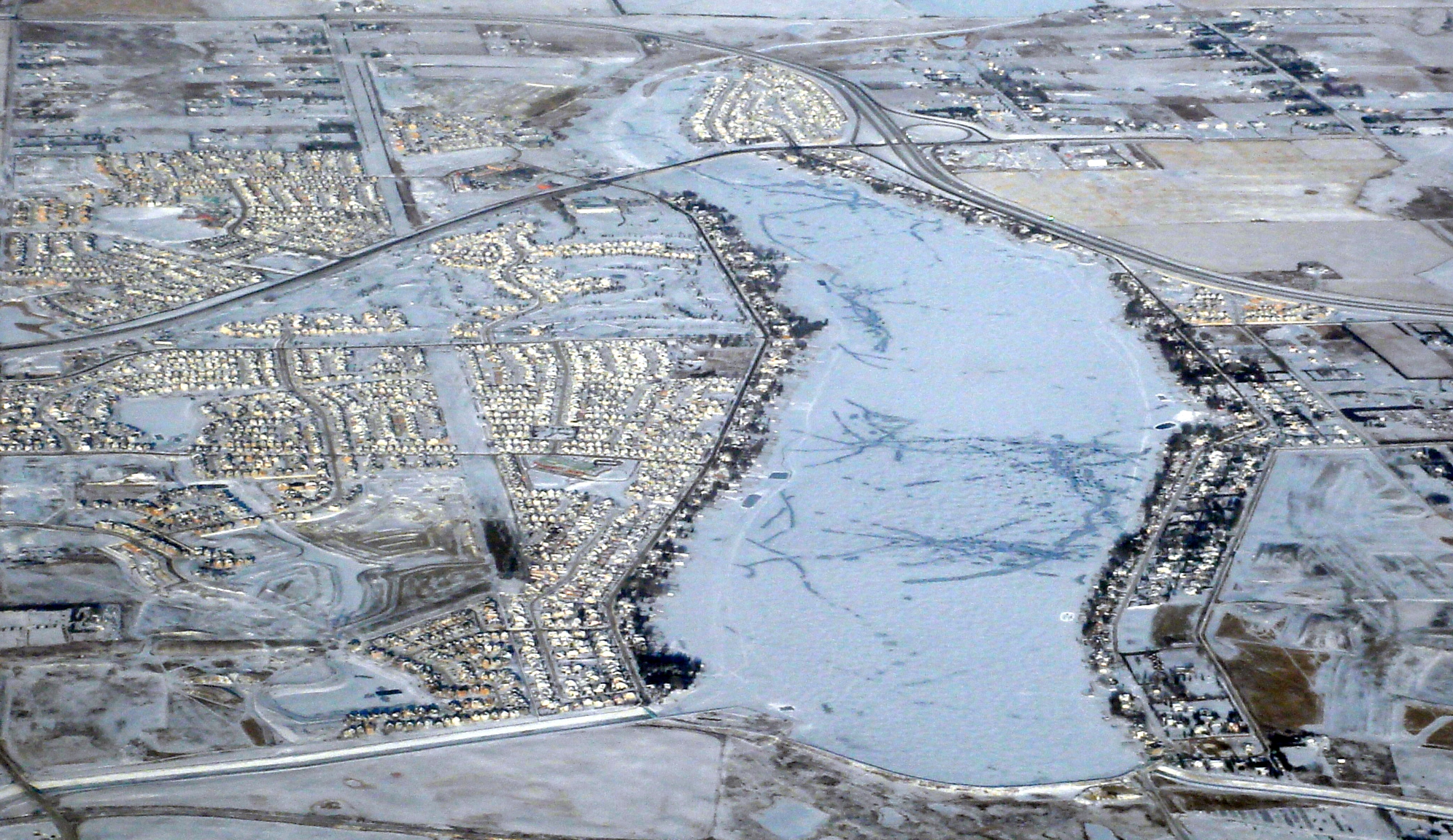 Aerial photo of Chestermere, Alberta